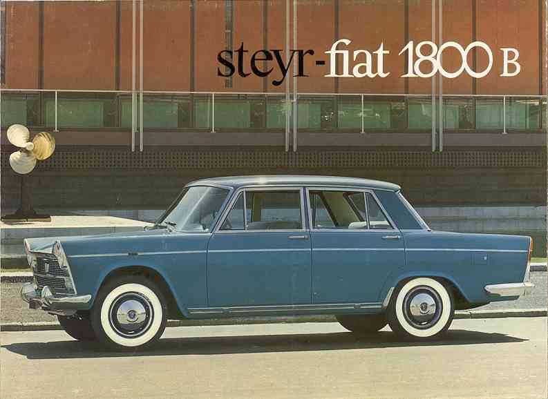 Fiat 1800 sedan